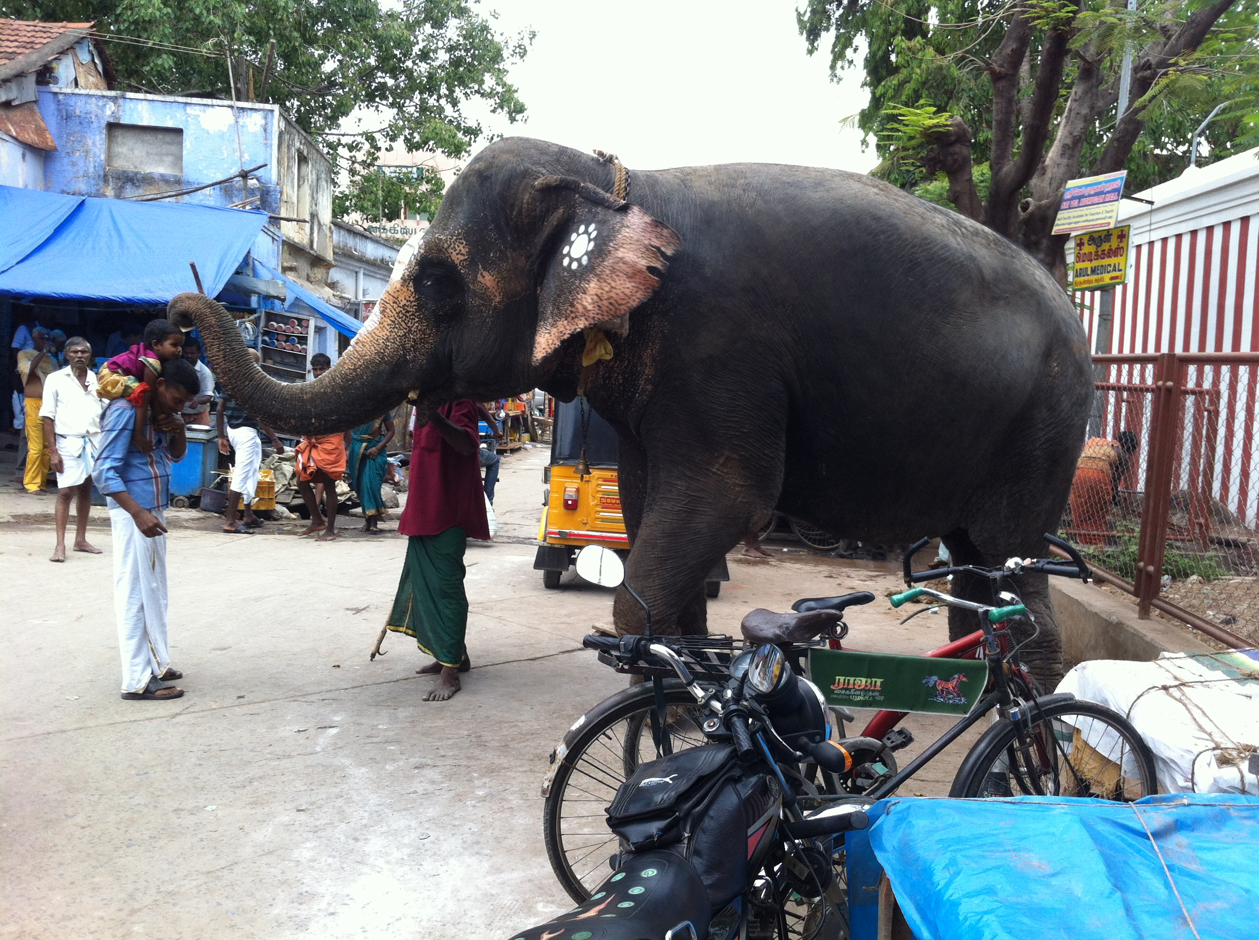 Pazhani Temple Elephant